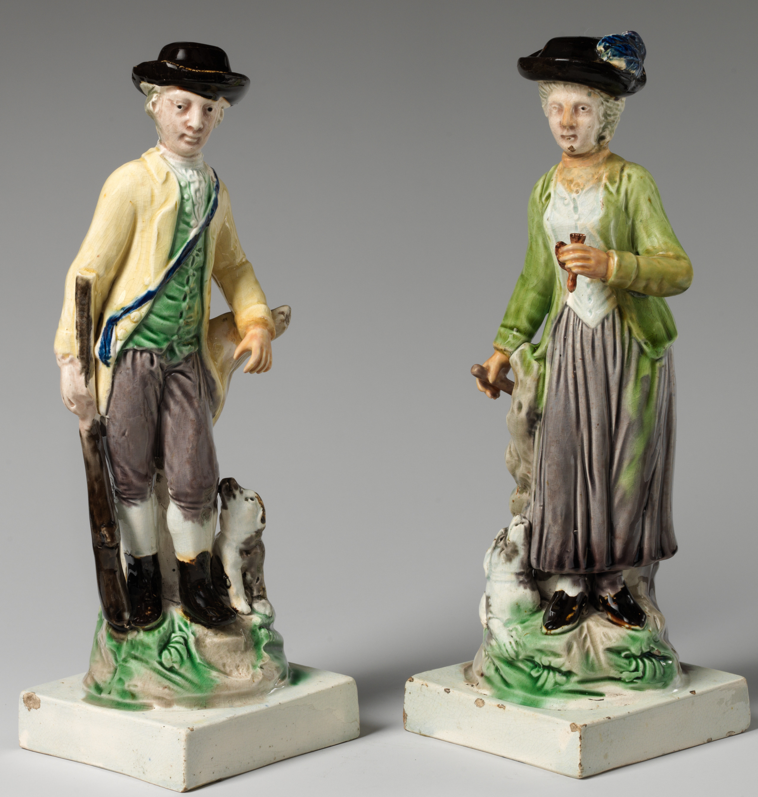 British, Burslem, Staffordshire; Figures; Ceramics-Pottery